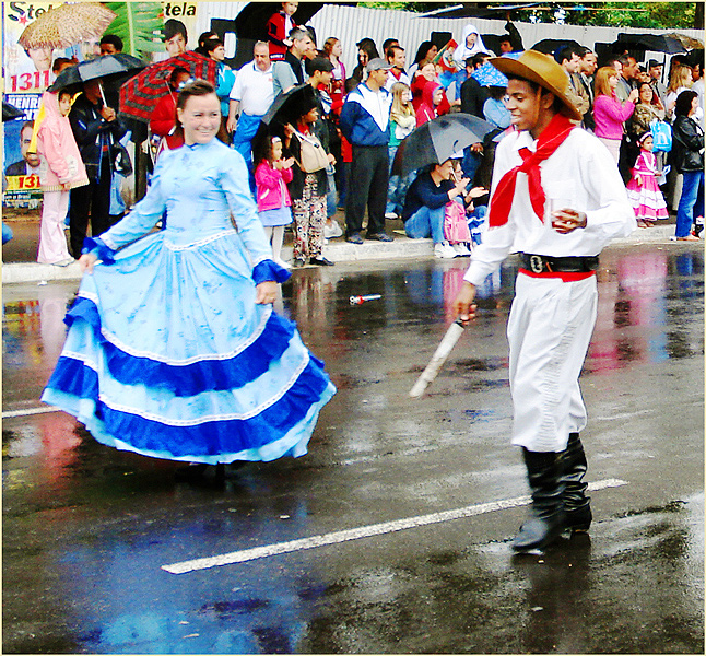 Typical gaucho clothing, Porto Alegre, Brazil